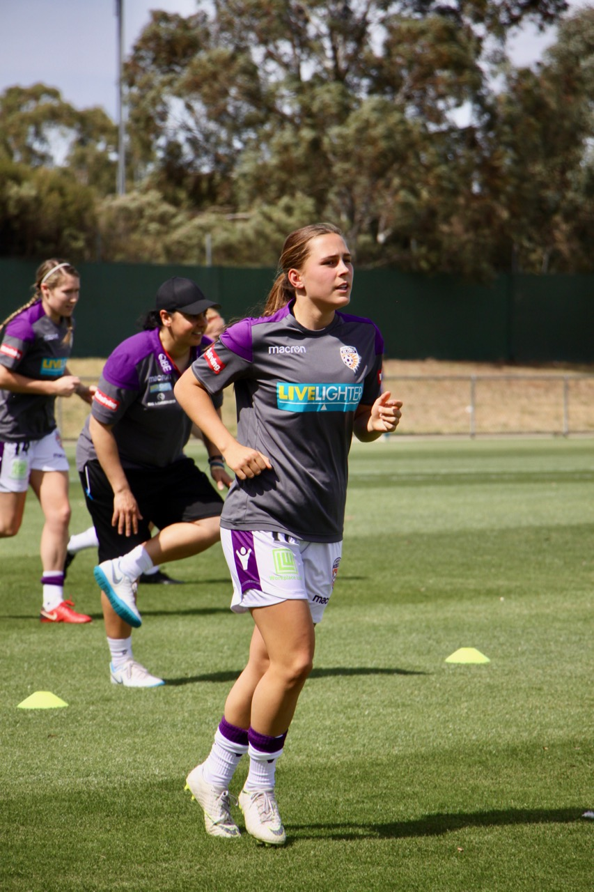 Round2CanPer - McKennaWarmUp